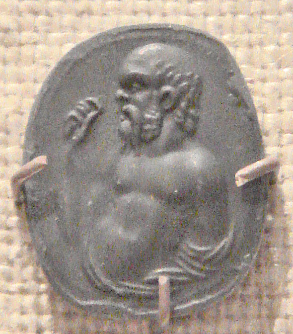 Socrates Carnelian Gem Imprint Rome, 1stBCE1stCE.